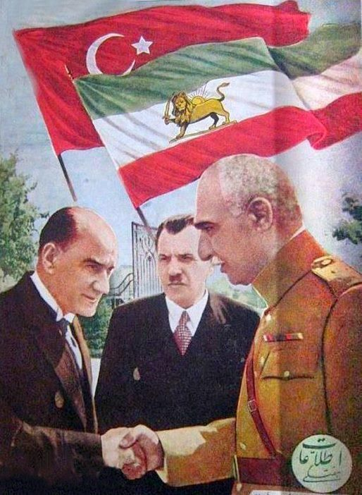 President Mustafa Kemal Atatürk of Turkey and Shah Reza Pahlavi of IranTürkçe: Cumhurbaşkanı Mustafa Kemal Atatürk ve İran Şahı Rıza Pehlevi